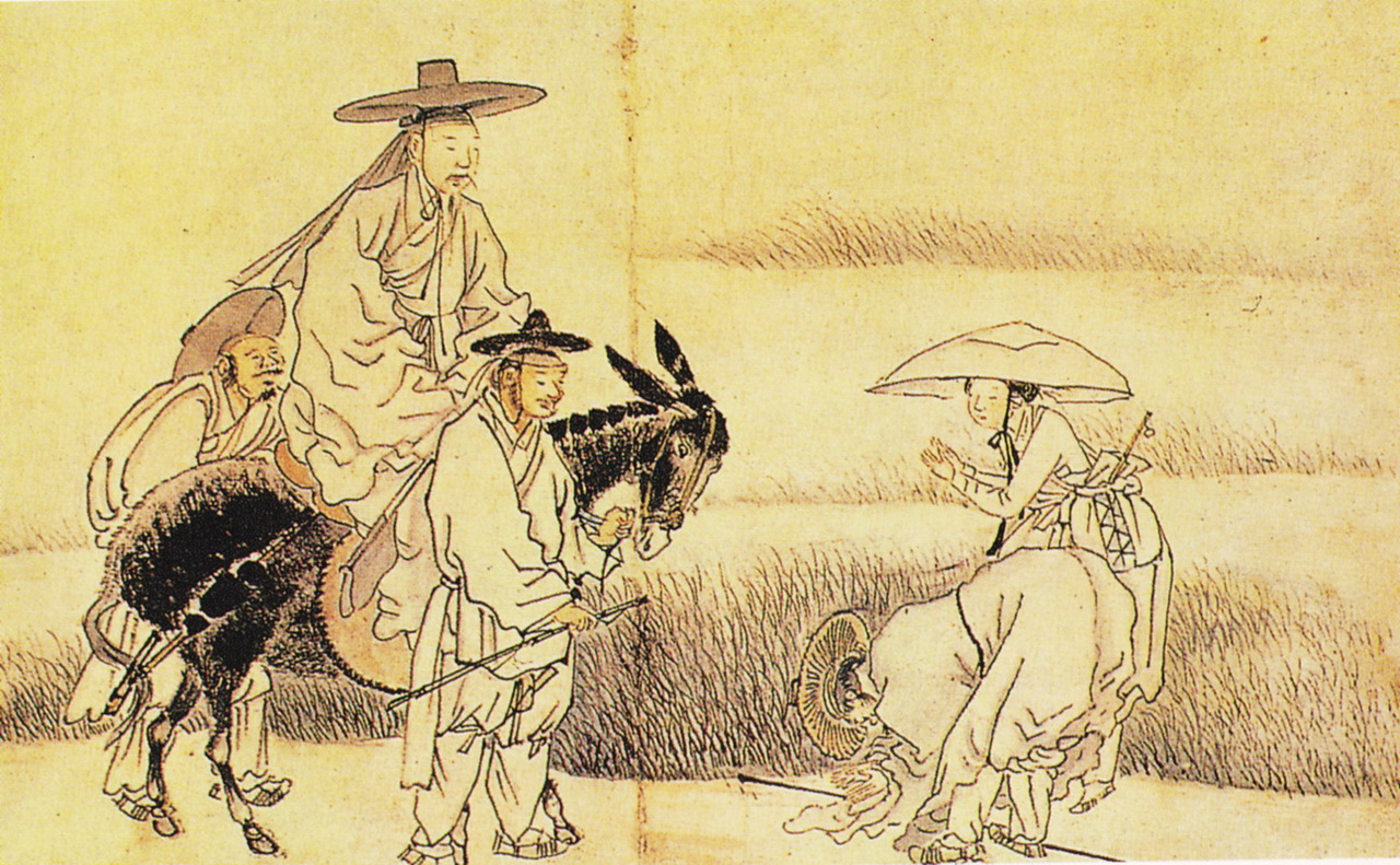 The 1815 Nosang alhyeon-do depicts a peasant man and woman showing deference to horseback aristocrat and his two servants. The painting is often used in Korean textbooks to show the highly stratified nature of premodern Korean society.